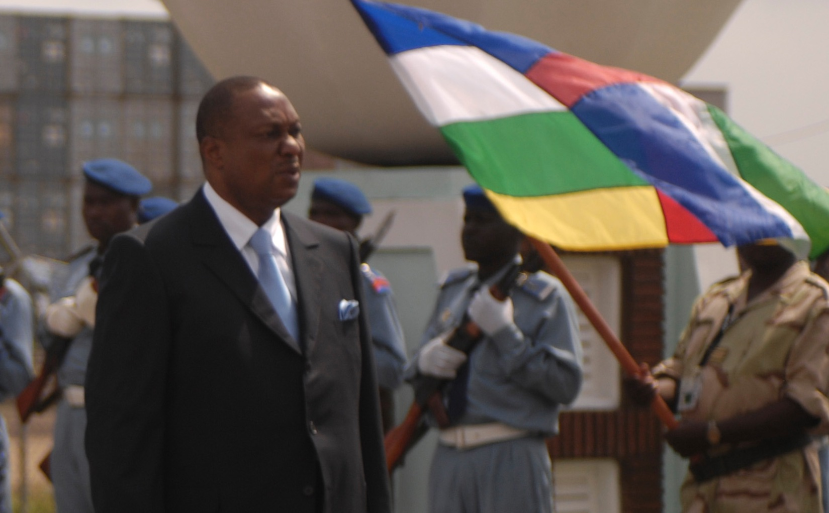 Cameroonian Minister of Defense Remy Ze Meka reviews a formation of RECAMP V participants from multiple African nations during the closing ceremony in Douala, Cameroon, Nov. 23, 2006. RECAMP V is an international exercise in Cameroon, Africa, with a goal of improving relationships between the U.S., Europe and Central African countries.